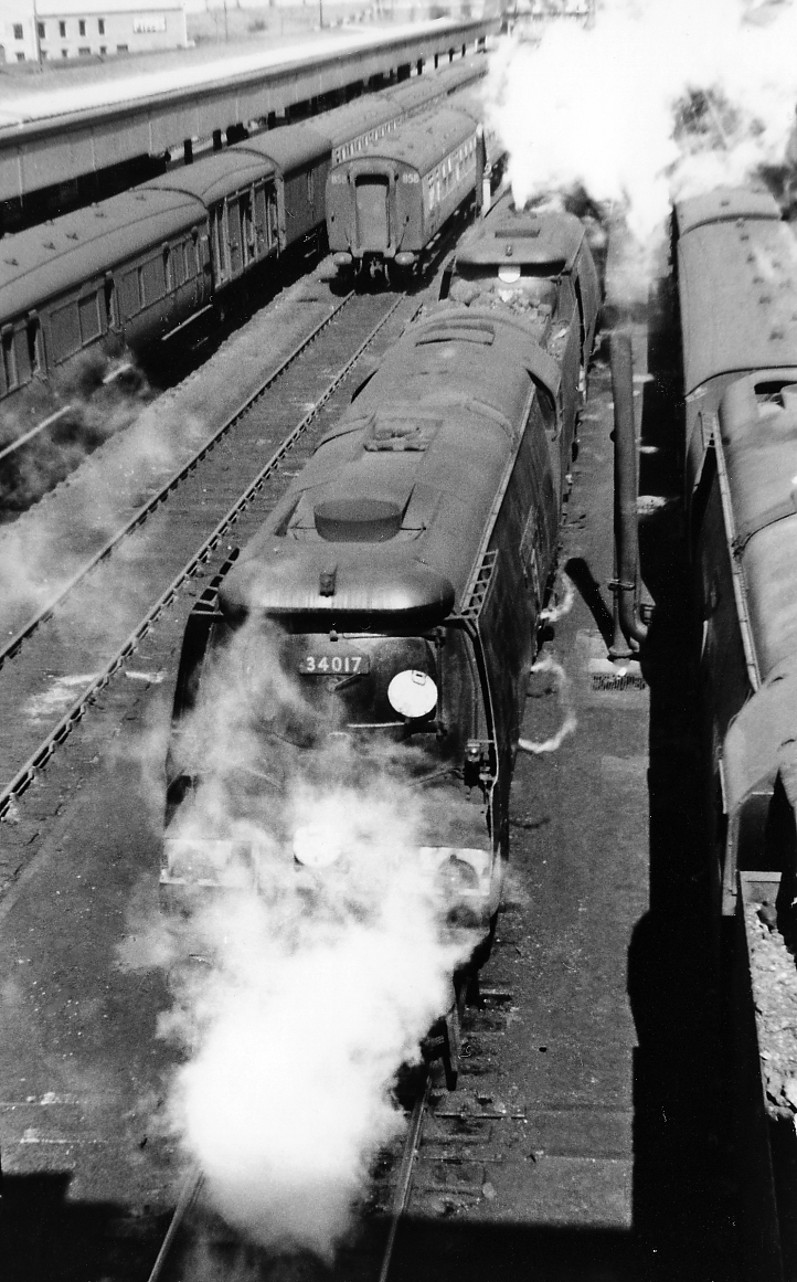 Exeter Central, with Bulleid Light Pacifics and other trains. Busy scene eastward froom the footbridge, towards Salisbury etc.: ex-LSWR main line from London etc. via Salisbury to Exeter etc.. The two Bulleid Light Pacifics coupled are No. 34017 'Ilfracombe' (built 12/45 as No. 21C117, renumbered 5/48, rebuilt 11/57 and withdrawn 10/66) and No. 34028 'Eddystone' (built 4/46 as No. 21C128, renumbered 12/48, rebuilt 8/58 and withdrawn 5/64). On the right is an Up express and on the left a Down one.